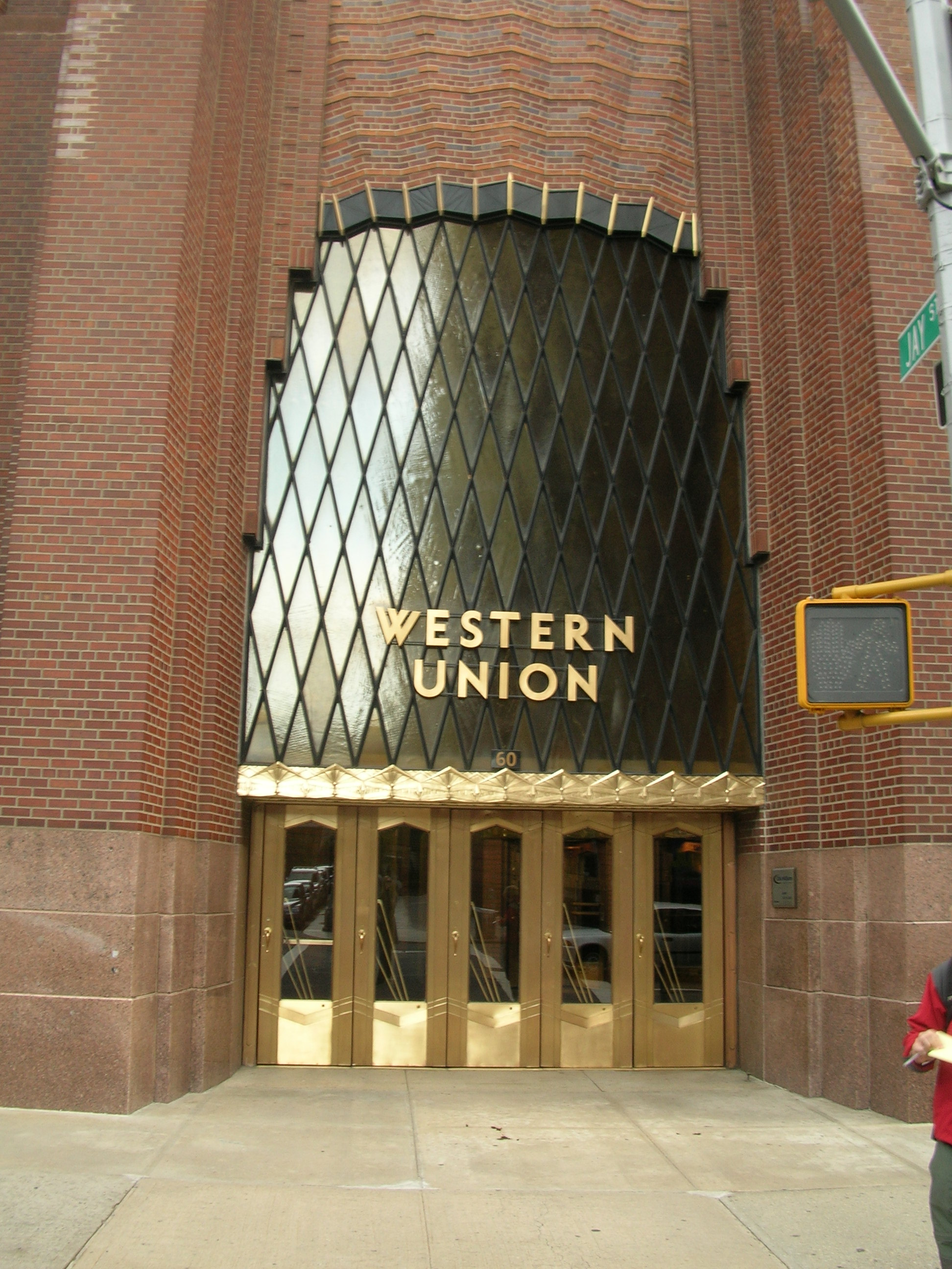 This photo is of Wikis Take Manhattan goal code H3, 60 Hudson Street.